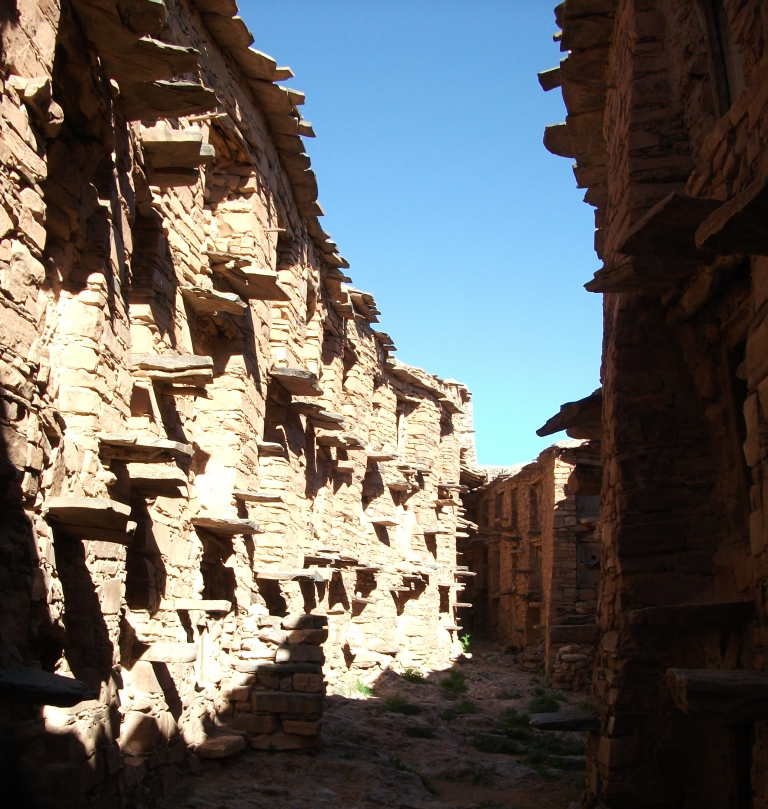 Imhilene, fortified granary, Morocco